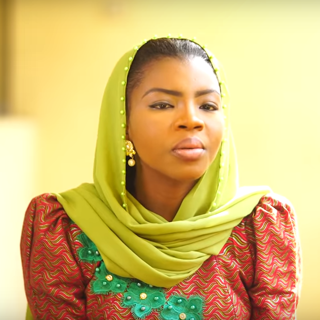 Amal Umar plays Hadiza in MTV Shuga